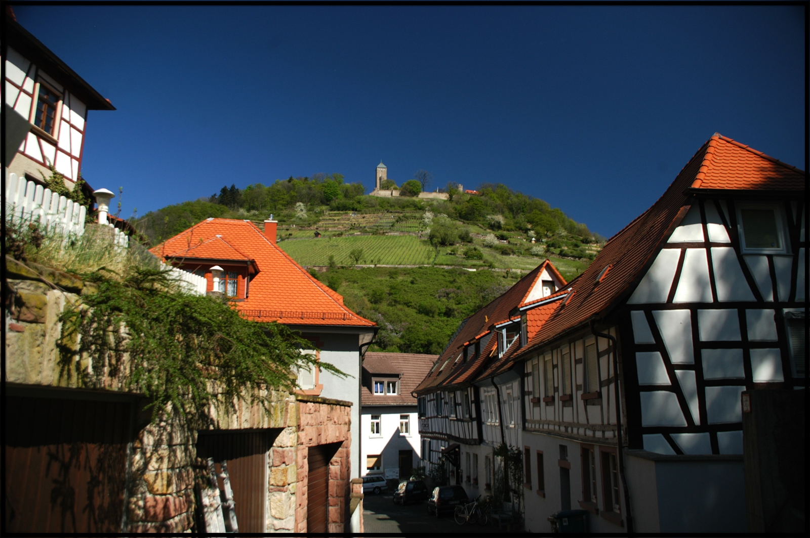 Heppenheim